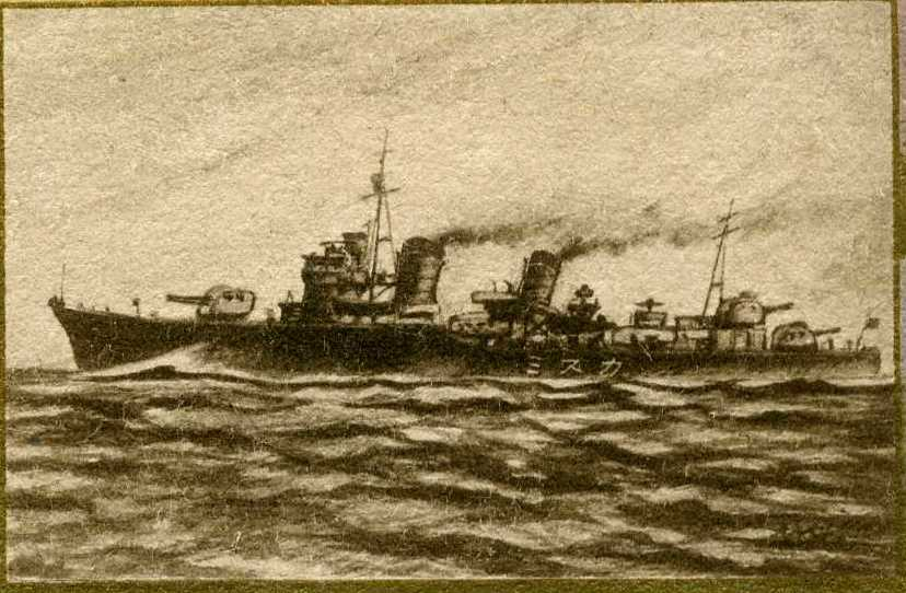 Kasumi was an Asashio-class destroyer of the Imperial Japanese Navy.